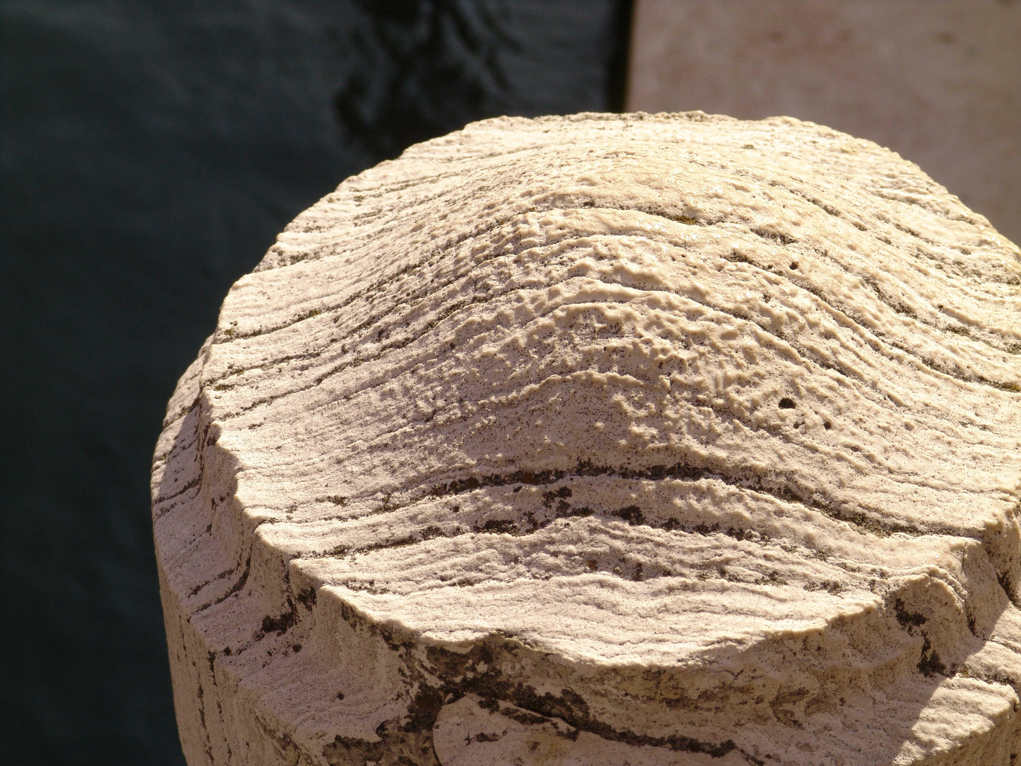 Pietra d'Istria (Baluster) - Venice